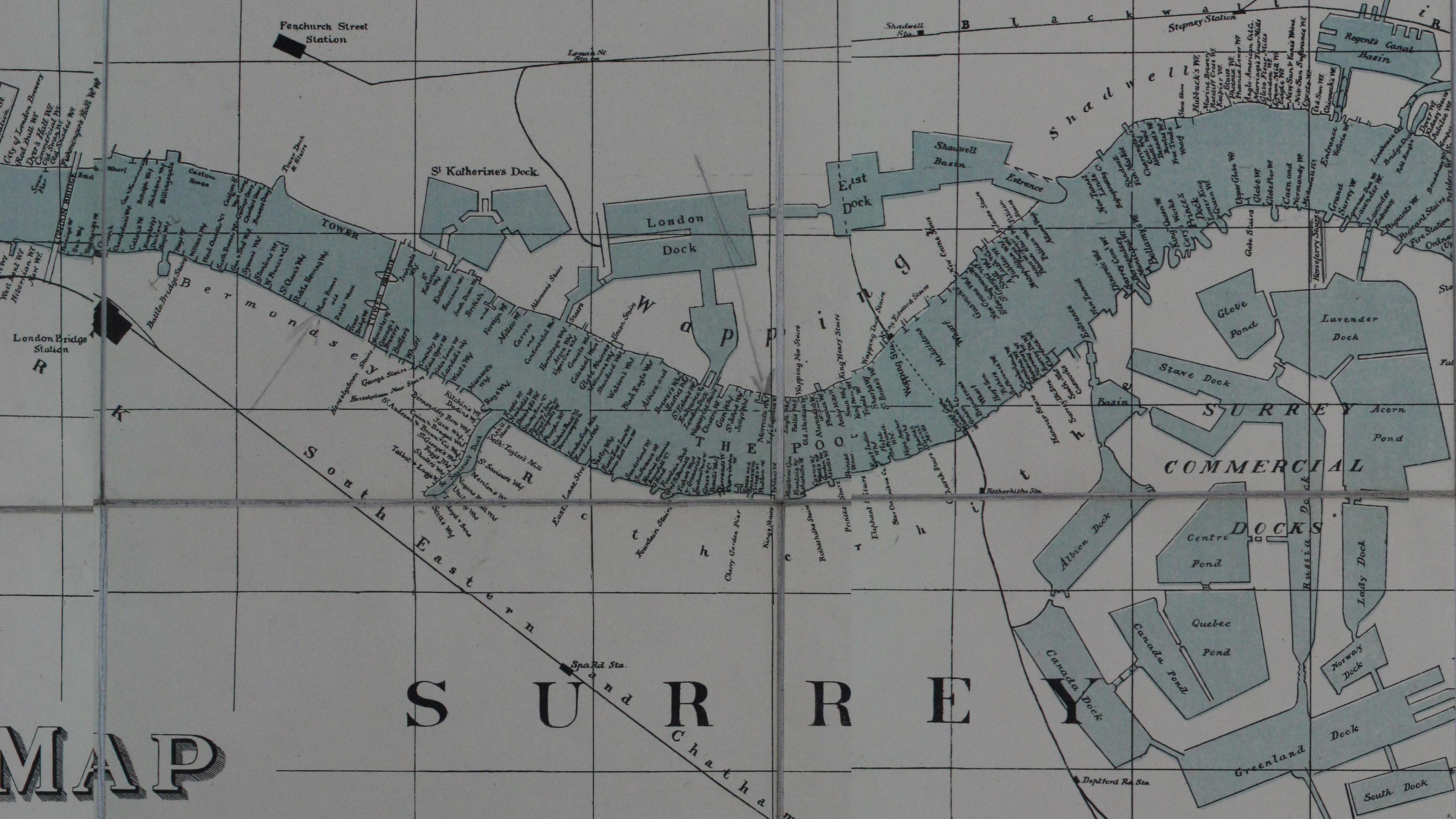 High-resolution crop of G. D. Evans' 1905 Wharf Map of the River Thames from London Bridge to Limehouse.